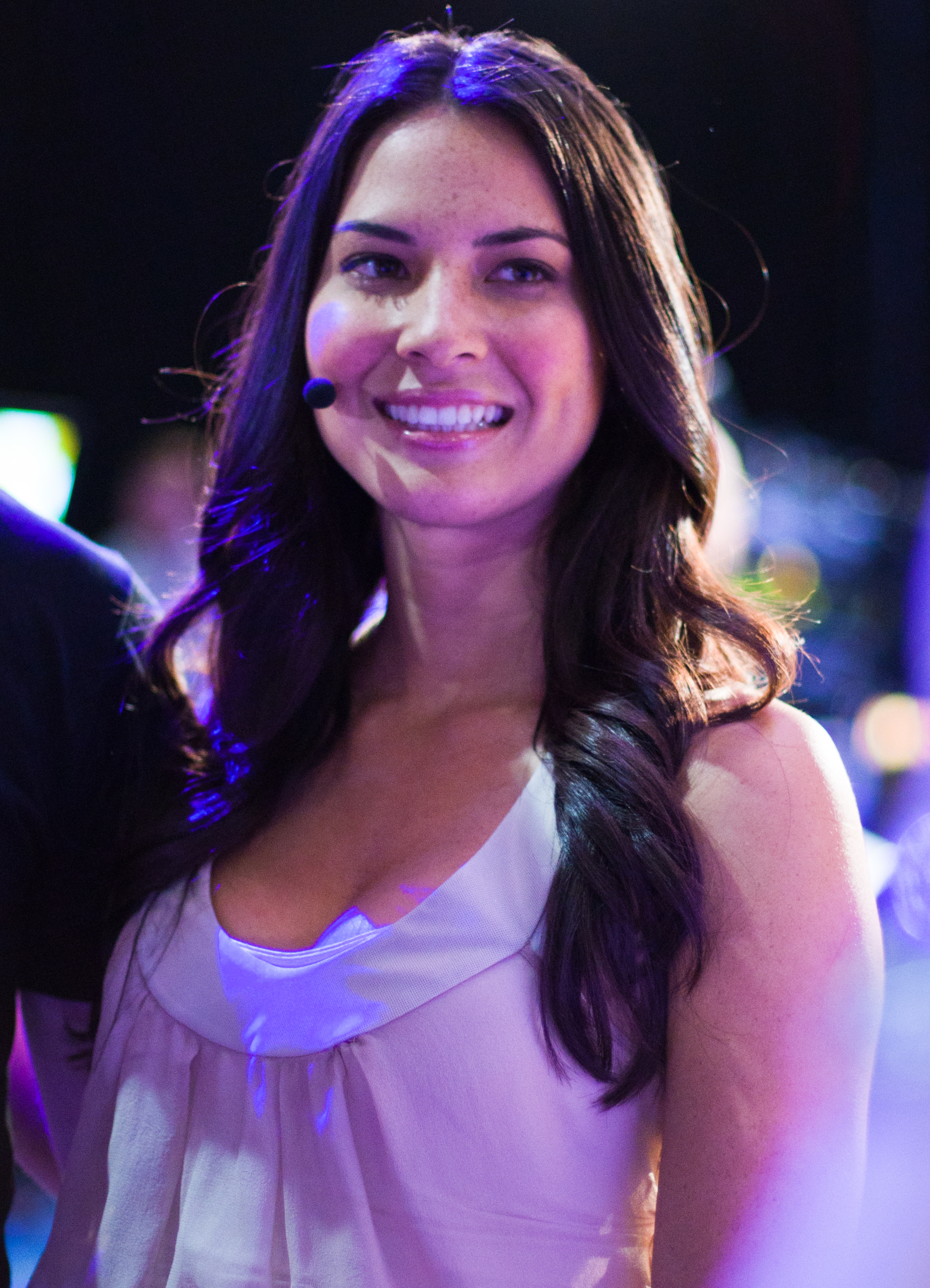 Olivia Munn at 2009 E3 Expo, Los Angeles.